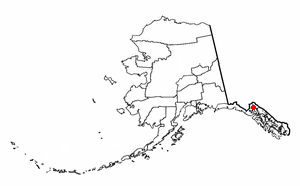 Adapted from Wikipedia's AK borough maps by Seth Ilys.